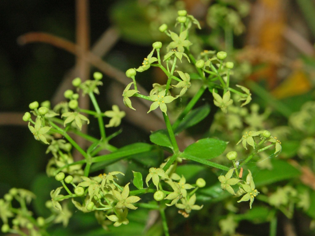 Rubia peregrina, Genova, Italy